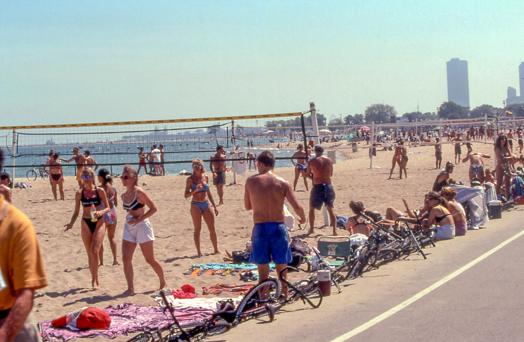 19970901 03 North Ave. Beach. Chicago